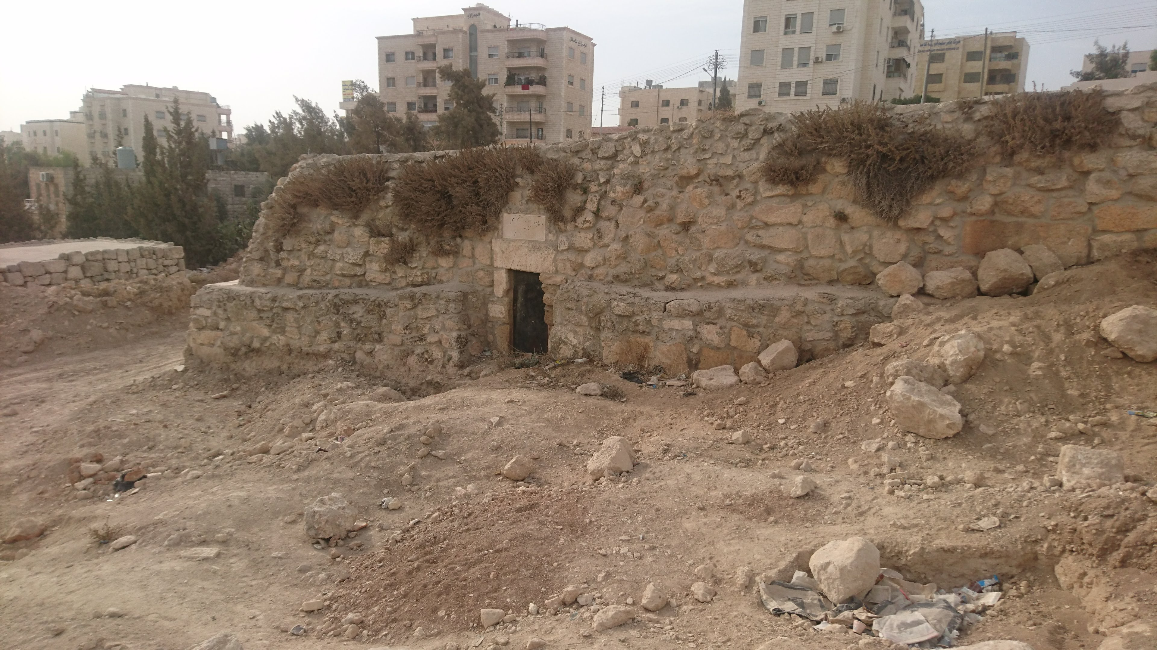 Kom Yajuz Mosque, Yajuz - Shafa Badran, Amman, Jordan.